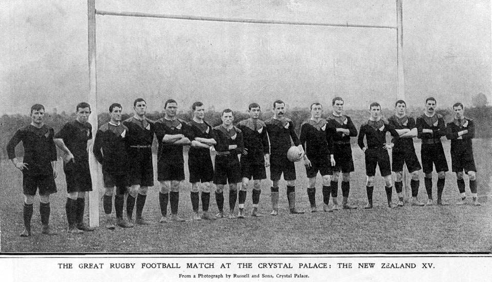 The Original All Blacks that played England at Crystal Palace during their UK tour. New Zealand won by 15-0. The Graphic title: "The Great Rugby Football Match at the Crystal Palace: The New Zealand XV"